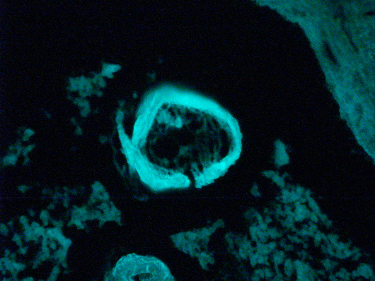 Natural luminescence corpora amylacea in the lumen of the prostate (benign prostatic hyperplasia) in ultraviolet light